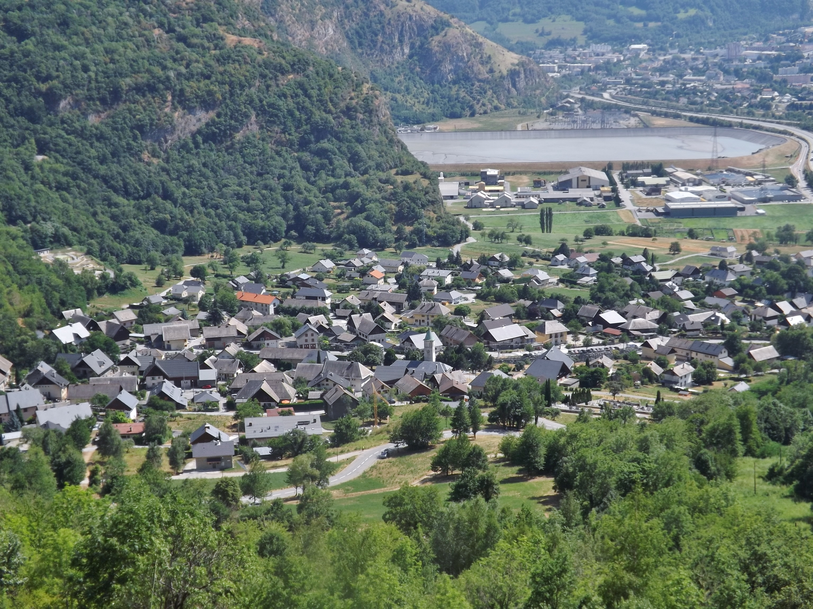 Panoramic sight on the French village of Hermillon, with visible at the background the Longefan hydrolectric basin, in the Maurienne valley of Savoie.